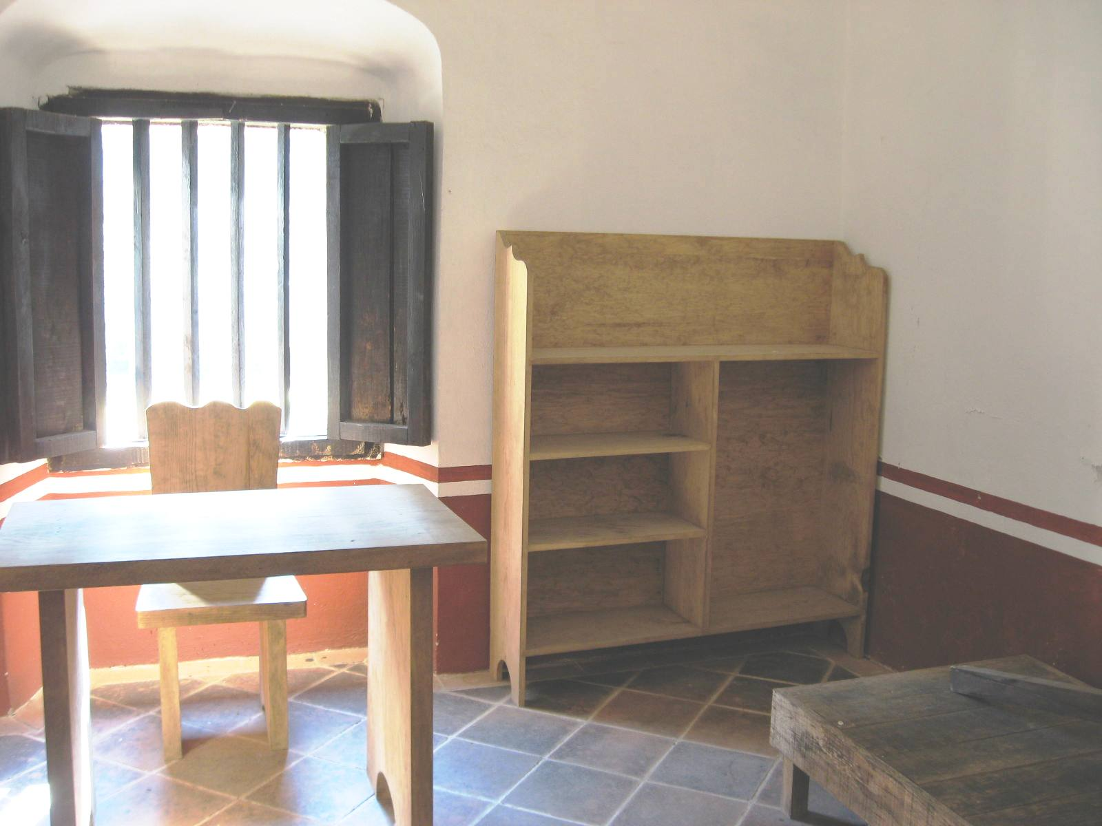 A monk's living quarters or "cell" at the former Convent of Desierto de los Leones. In Desierto de los Leones National Park, in western México, D. F..